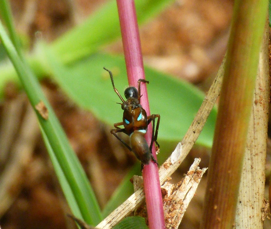 Formiscurra indicus (Caliscelidae) from above. Bangalore, India.